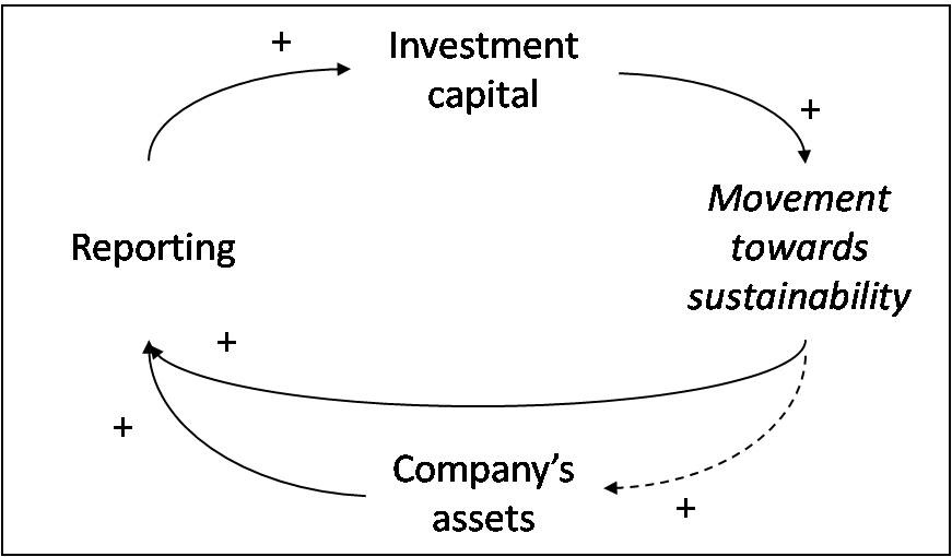 By incorporating sustainability investment and returns into traditional financial reporting, a clearer picture of the bottom-line impact of a company’s actions towards sustainability is made available. In this positive reinforcing loop, greater investor returns and increased movement towards sustainability are generated with every cycle.